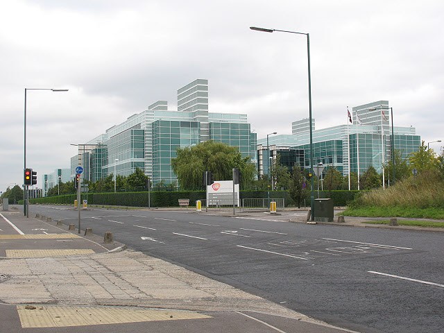 Glaxo Smith Kline research unit, Harlow The site on Elizabeth Way was shown as vacant on the online Landranger map at the time of submission so the buildings must have been built recently (c. 2005-2009). The GSK website declares it to be a research & development facility.